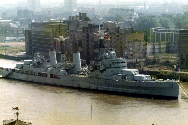 HMS Belfast Taken from the top of The Monument in July 1981. Note how derelict the river bank was at that time.